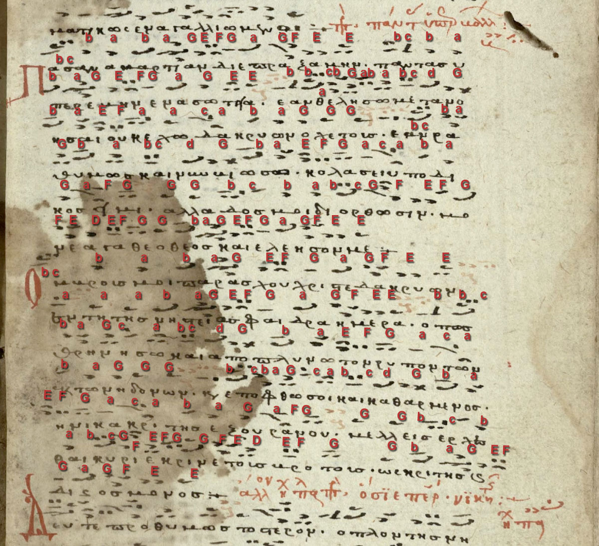 Prosomoia over the Avtomelon πάντας ὑπερβάλλων (Oktoechos of a 15th-century Sticherarion)